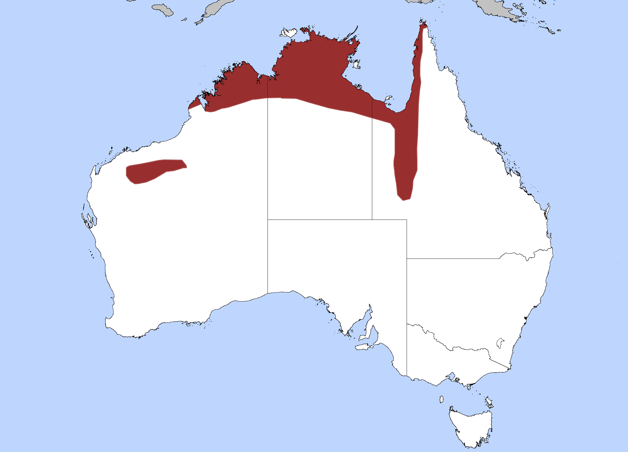 The Distribution of the Olive Python